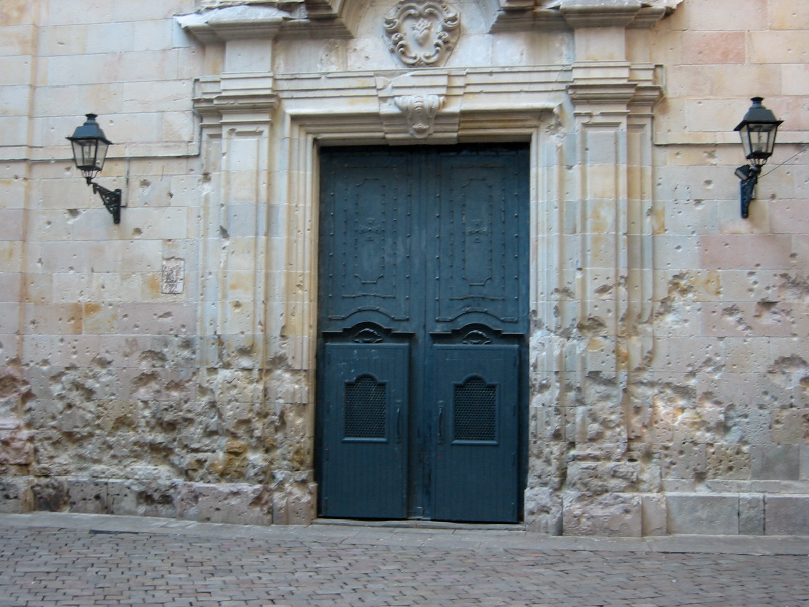 Facade of the Sant Felip Neri church, in Barcelona. During the Spanish civil war, this wall was damaged by Italian bombers. However, some Fascist sources said it was used by Republican firing squads.